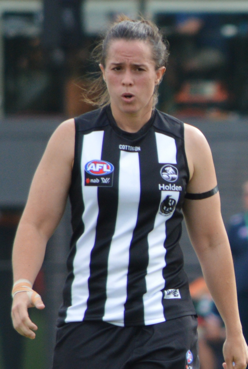 Tara Morgan during the round 3, 2018, AFL Women's match between Collingwood and Greater Western Sydney